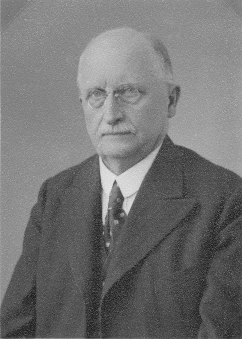 Eduard Thilo, factory director of Glanzstoff Austria, photographed in 1930, see his genealogy and further pictures at Luyken Family Association